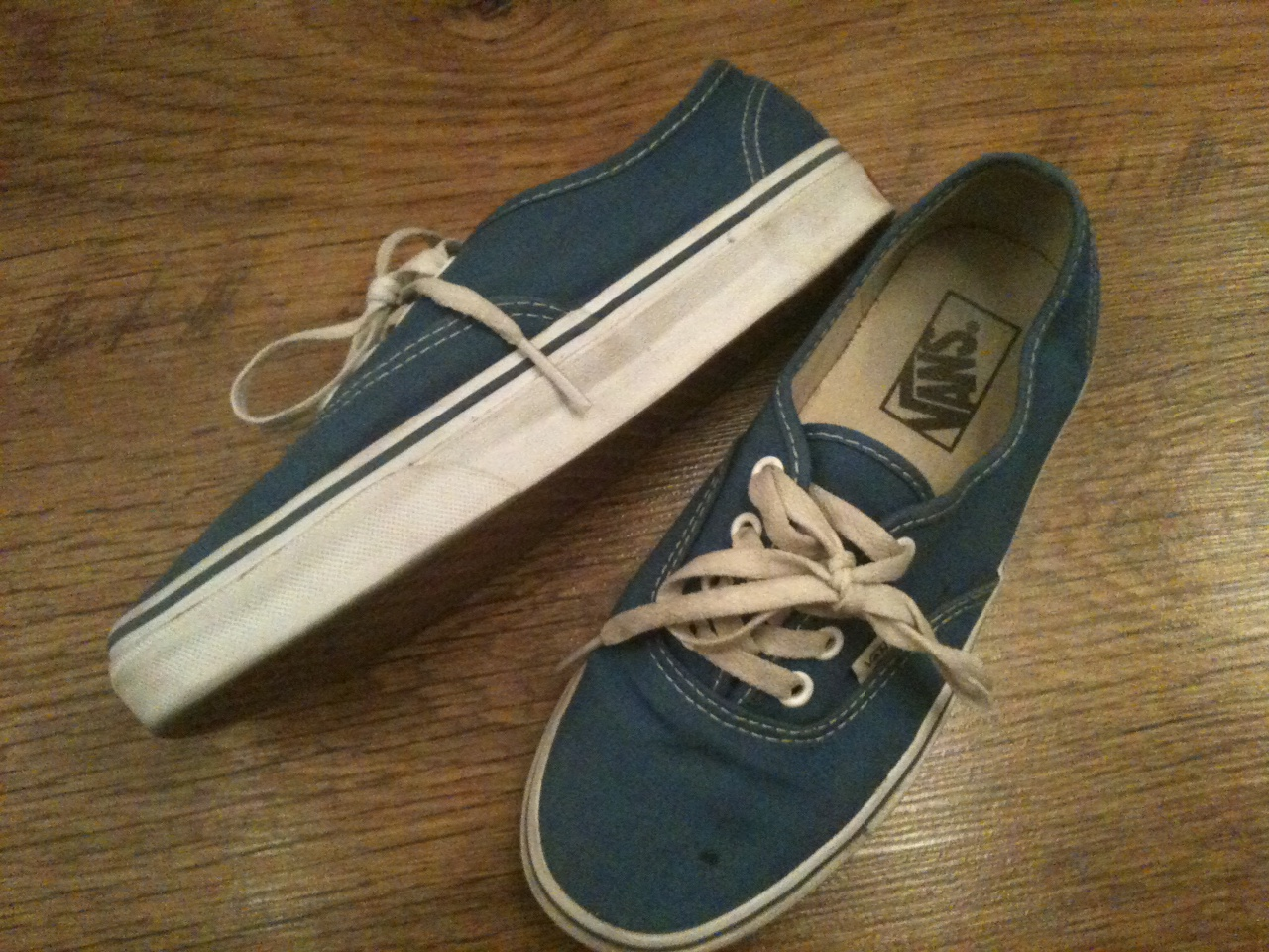 Picture of Vans shoes.